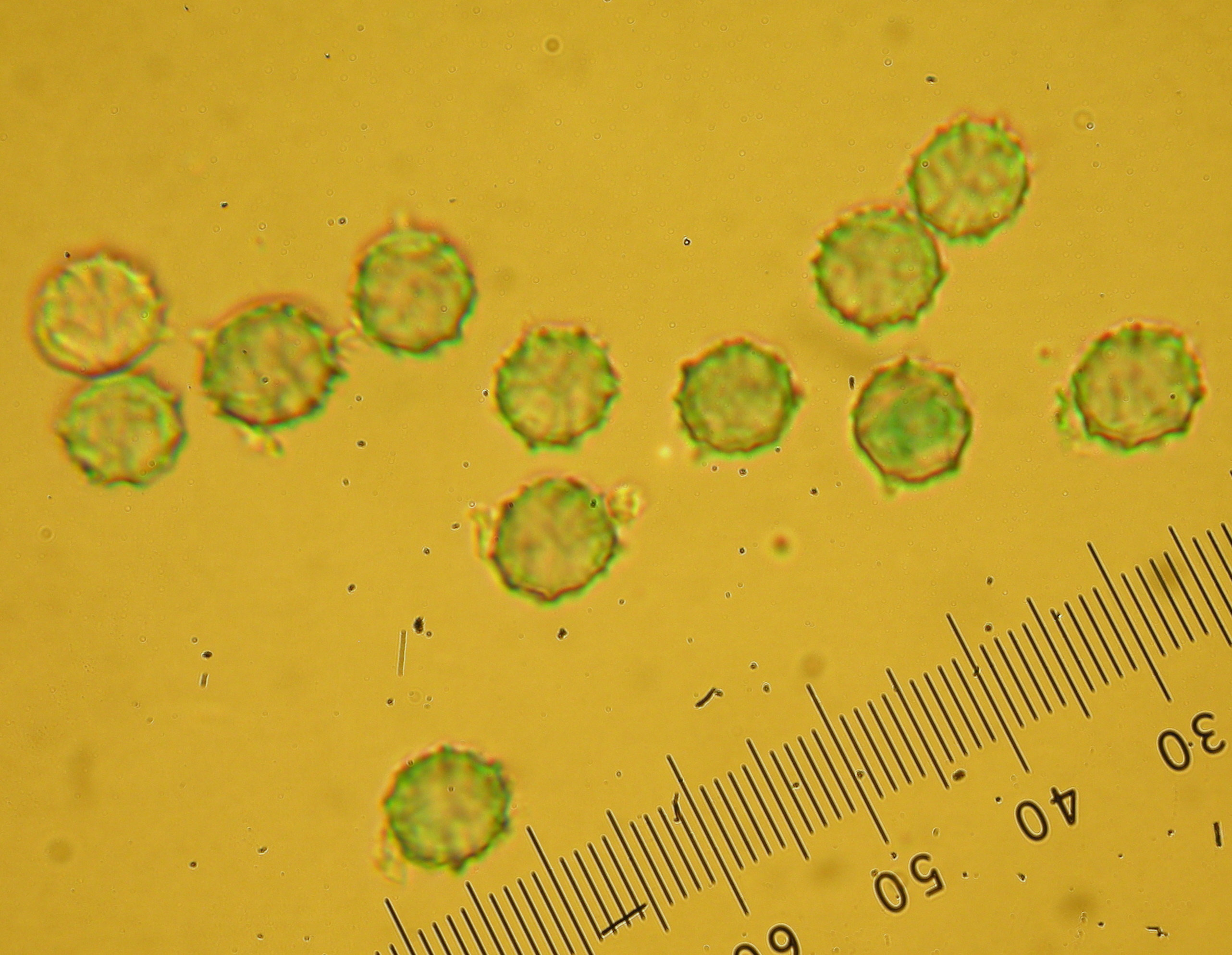 Spore of the mushroom Lactarius subflammeus Hesler & A.H. Sm.